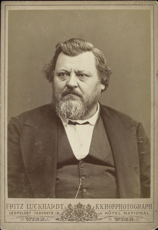 Karl Vogt (1817–1895), German evolution scientist, philosopher and politician.